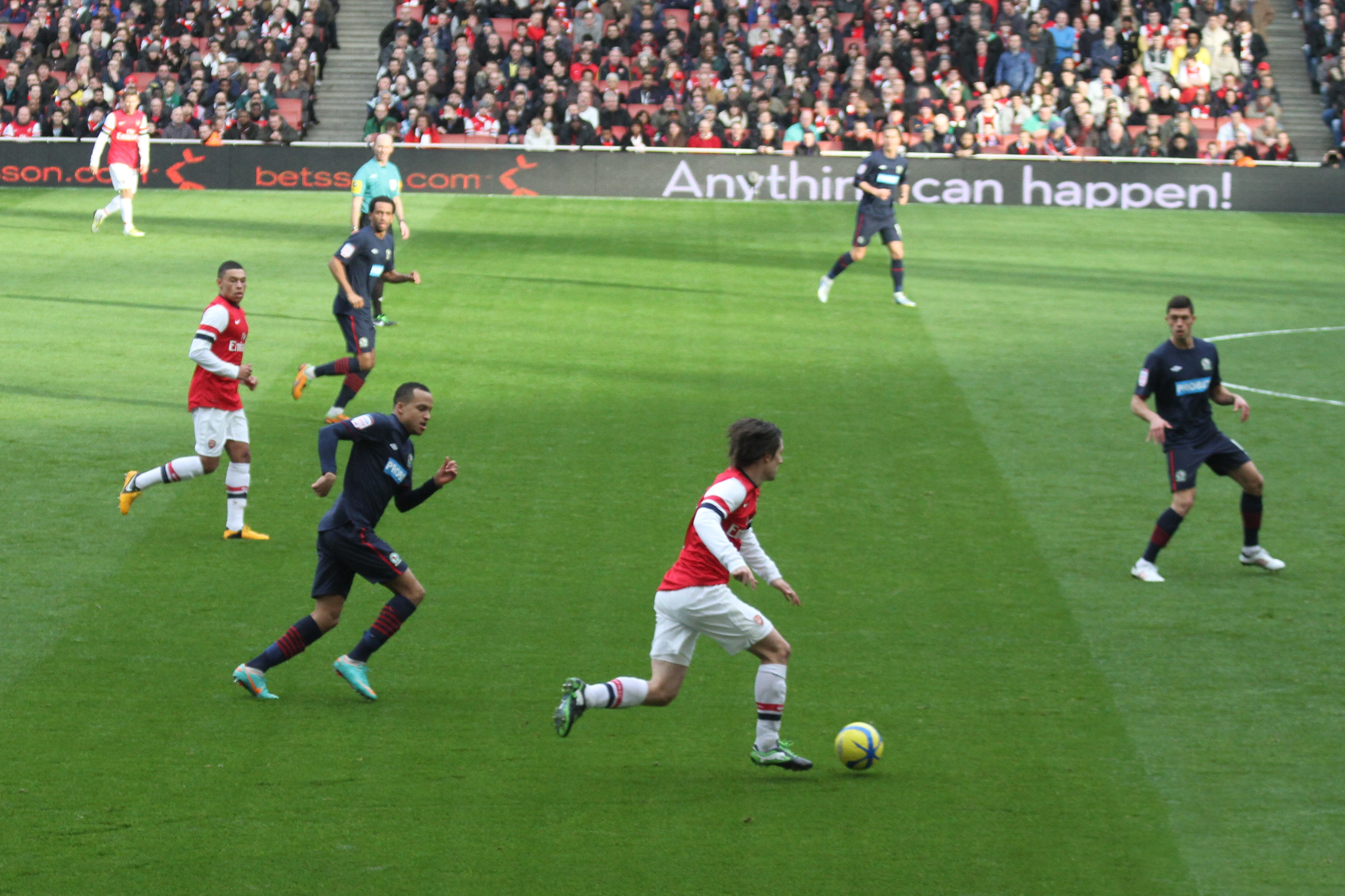 Tomáš Rosický on the wing